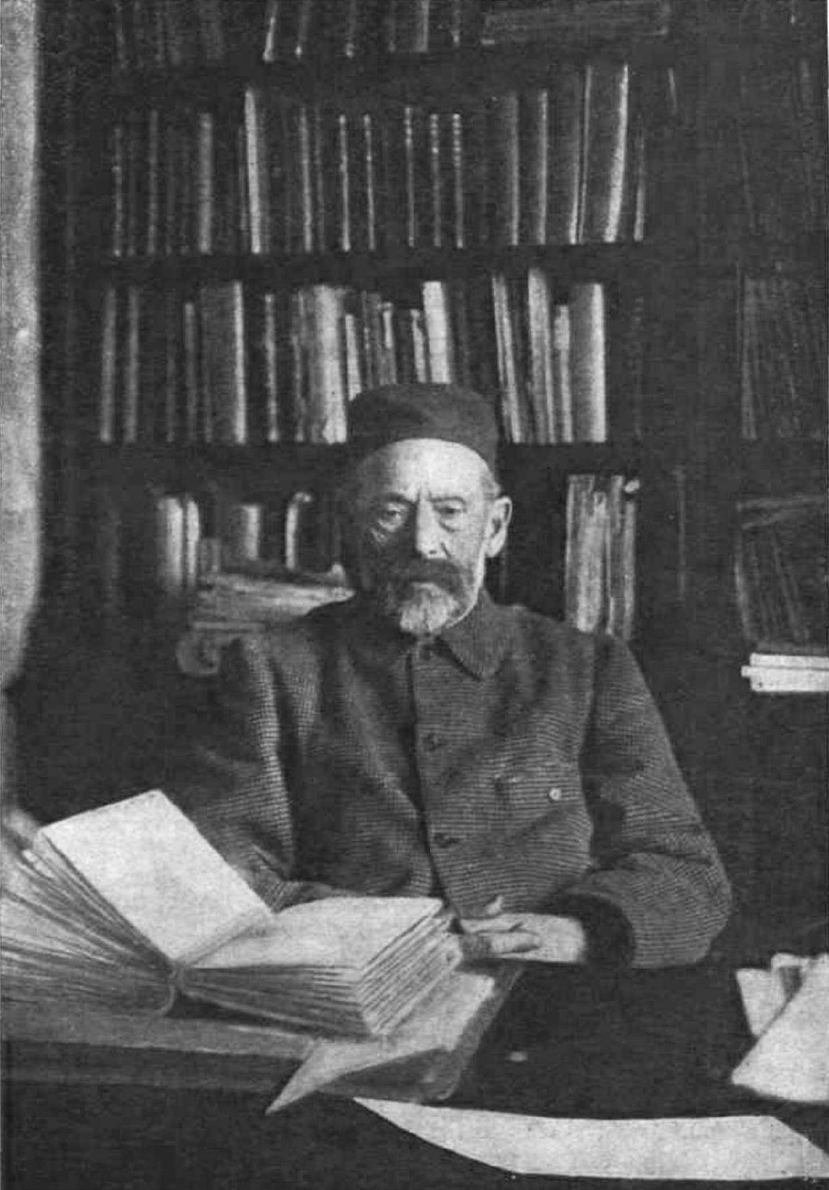 Ármin Vámbéry